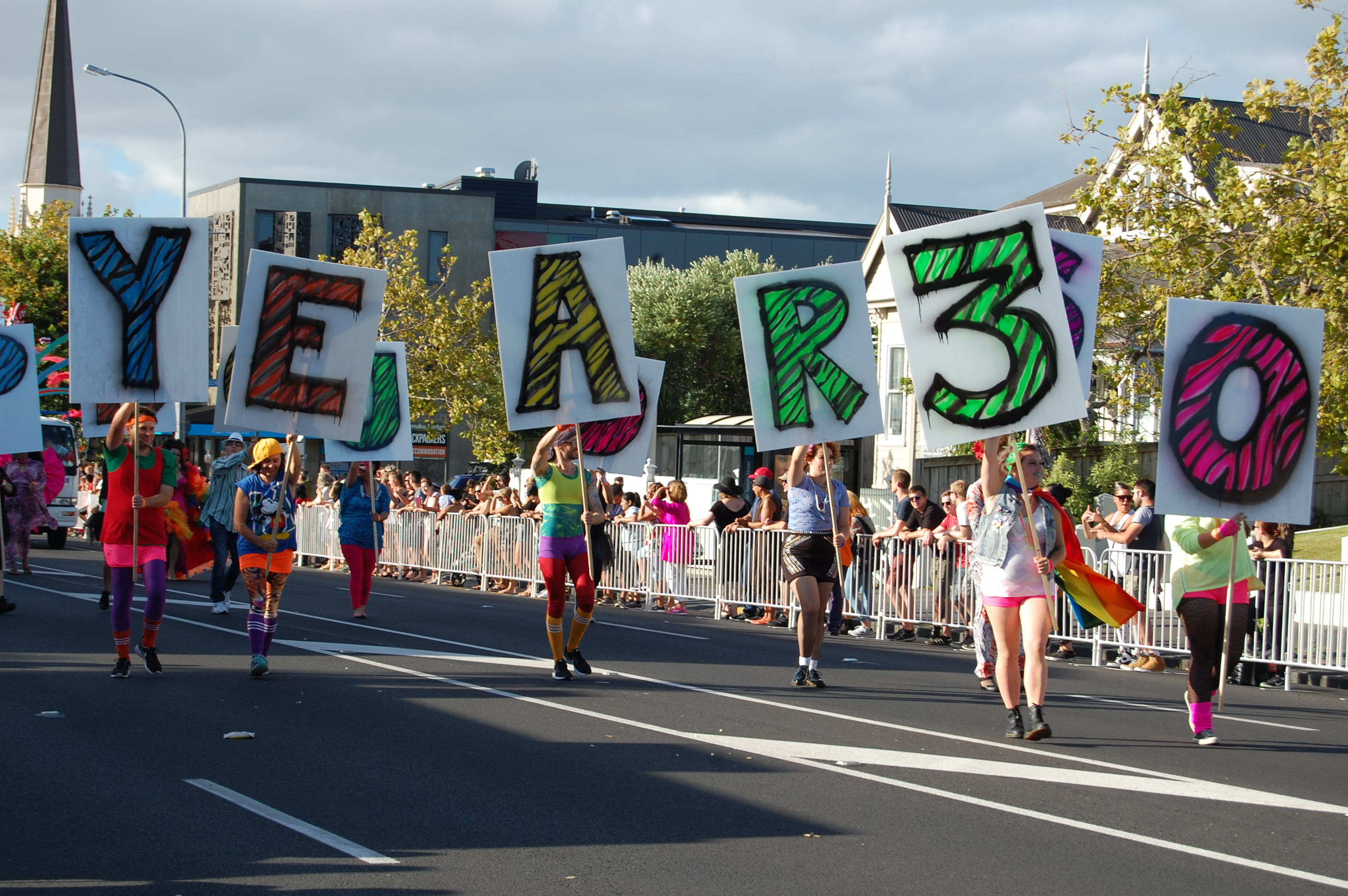 Dykes on Bikes, Auckland pride parade 2016 Personality rights warningAlthough this work is freely licensed or in the public domain, the person(s) shown may have rights that legally restrict certain re-uses unless those depicted consent to such uses. In these cases, a model release or other evidence of consent could protect you from infringement claims.